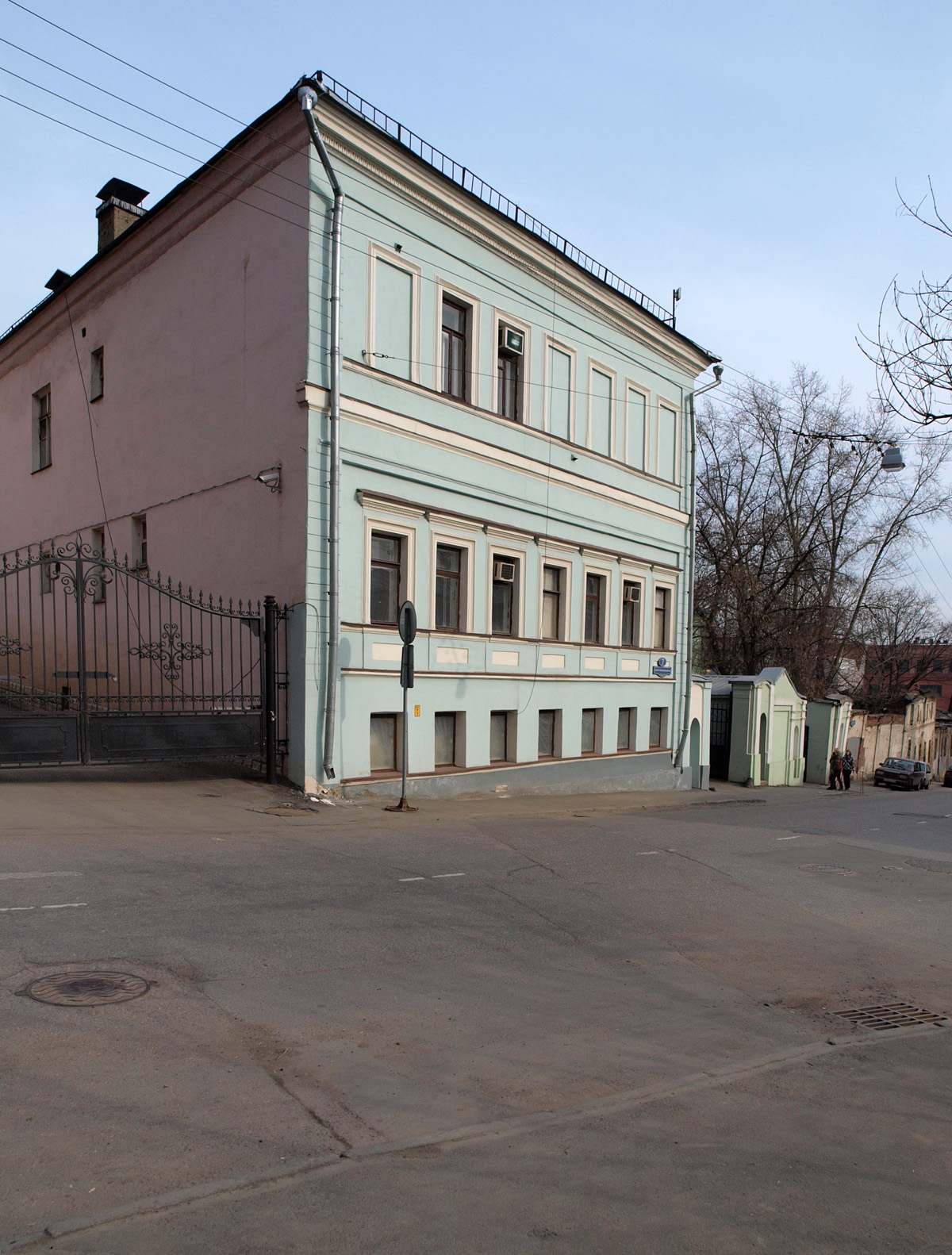 Bolshoy Nikolovorobinsky Lane, Moscow.